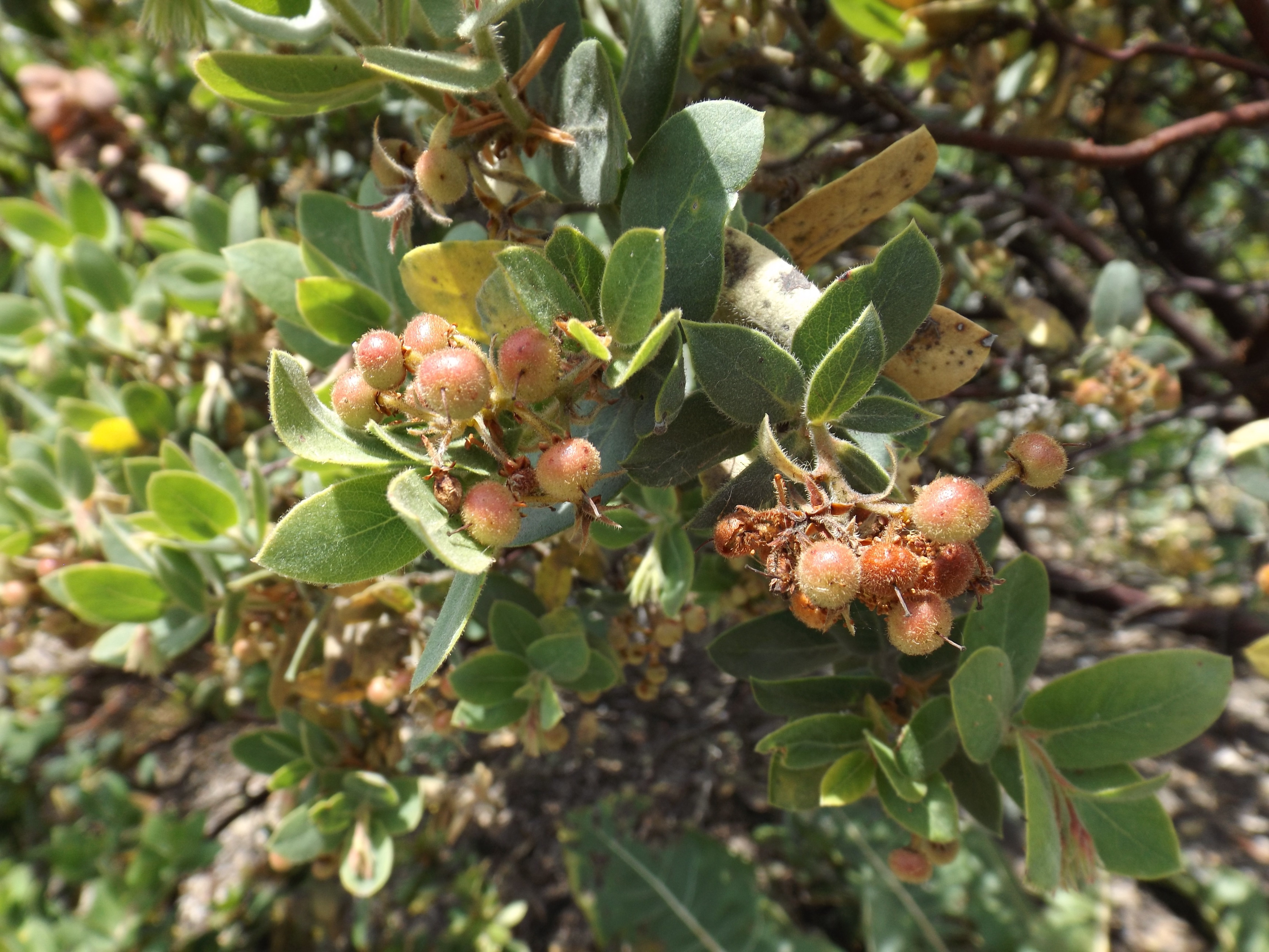 Arctostaphylos hookeri at the UC Botanical Garden, Berkeley, California, USAPlant ID from the garden sign